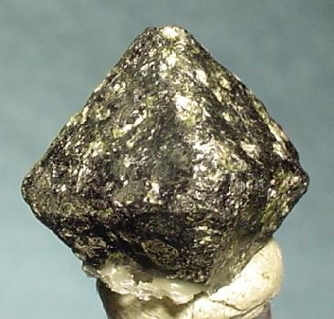 Chromite Locality: Freetown layered complex, Guma Water, Sierra Leone (Locality at ) Size: 1.3 x 1.2 x 1.2 cm. A huge, very sharp, complete all-around, octahedral chromite crystal from a very uncommon locality - the Freetown Layered Complex in Sierra Leone, Africa.